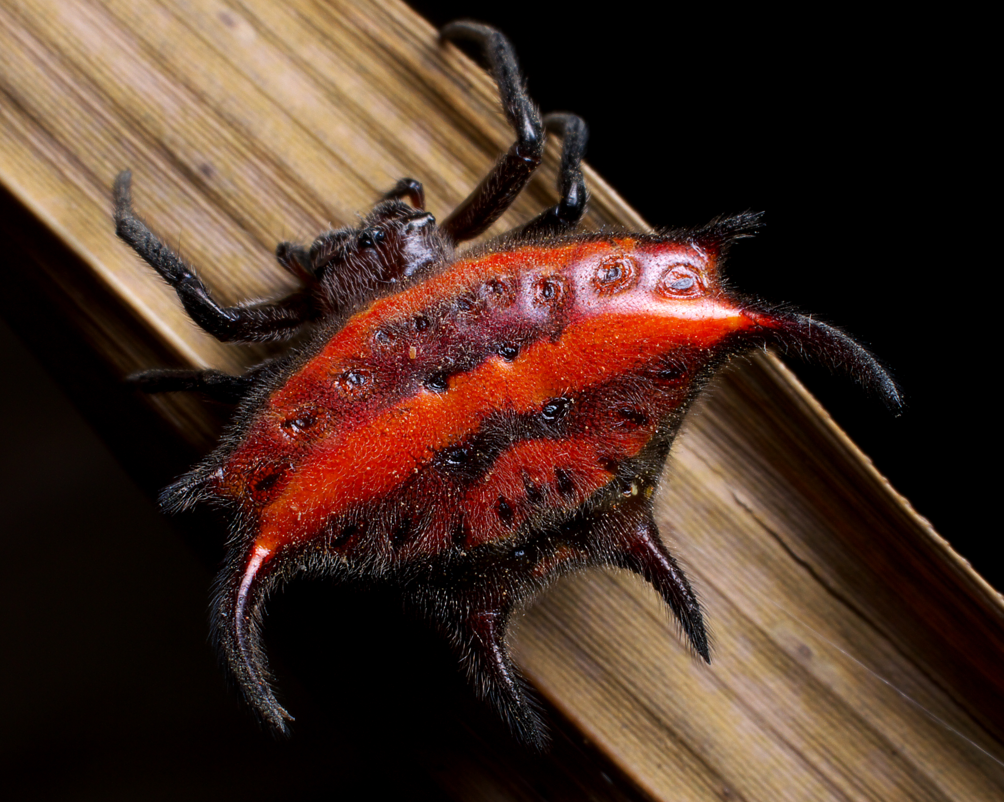 Gasteracantha falcicornis (red spiked orb weaver spider)